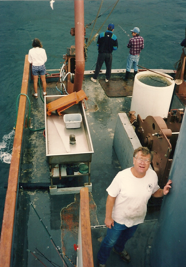 The Vantuna during a trip to catch live Kelp Bass, Paralabrax clathratus, in order to tag and then release them. Also pictured is Occidental College Professor John S. Stephens, Jr.